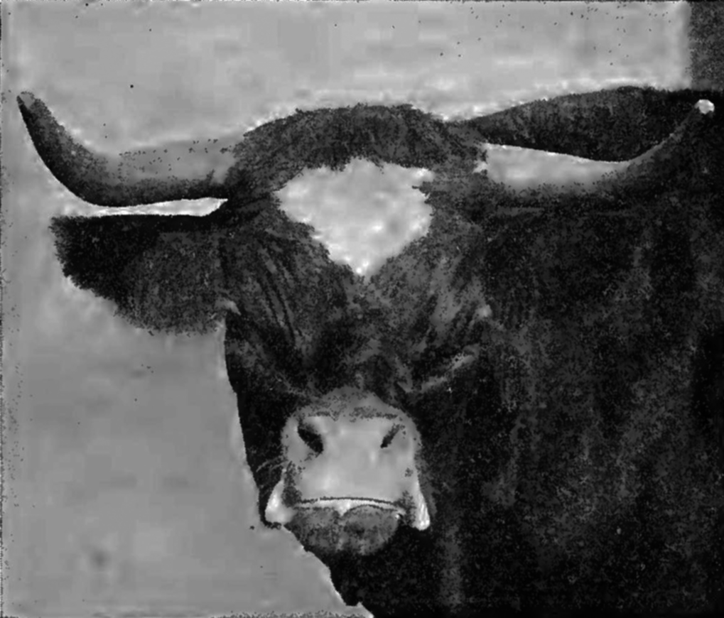 Photograph of a Niata cow, from Ernest Gibson, Some Notes on the Niata Breed of Cattle (Bos taurus), Proceedings of the Zoological Society of London, 1915